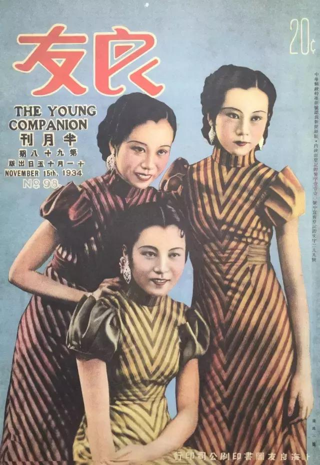 Cover of Liangyou magazine #98, featuring actresses and sisters Liang Saizhen (梁赛珍) and Liang Saizhu (二妹梁赛珠) and Liang Saishan (三妹梁赛珊). The sisters acted in the 1935 silent film Four Sisters ( 四姊妹).